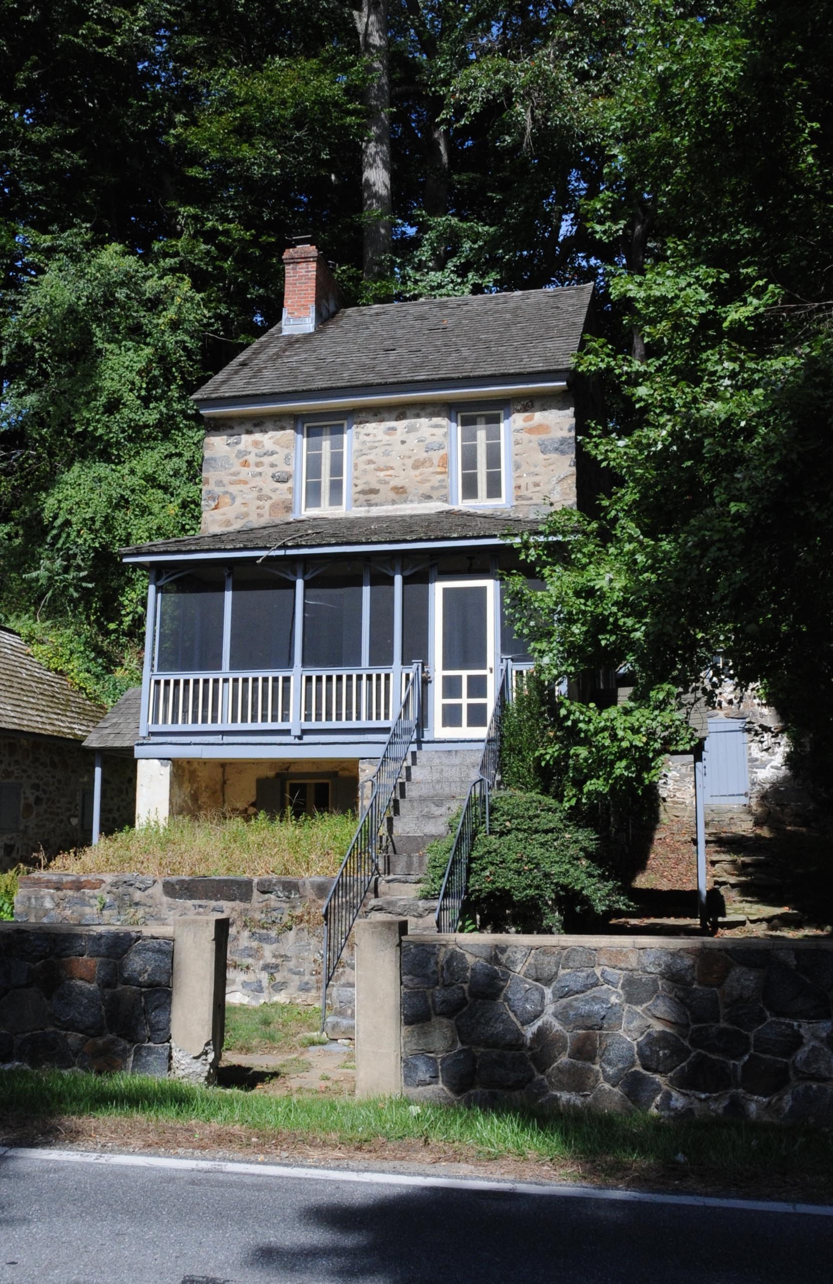 THIS IS THE CIRCA 1694 MILLERS HOUSE ADJACENT TO THE SPRING HOUSE